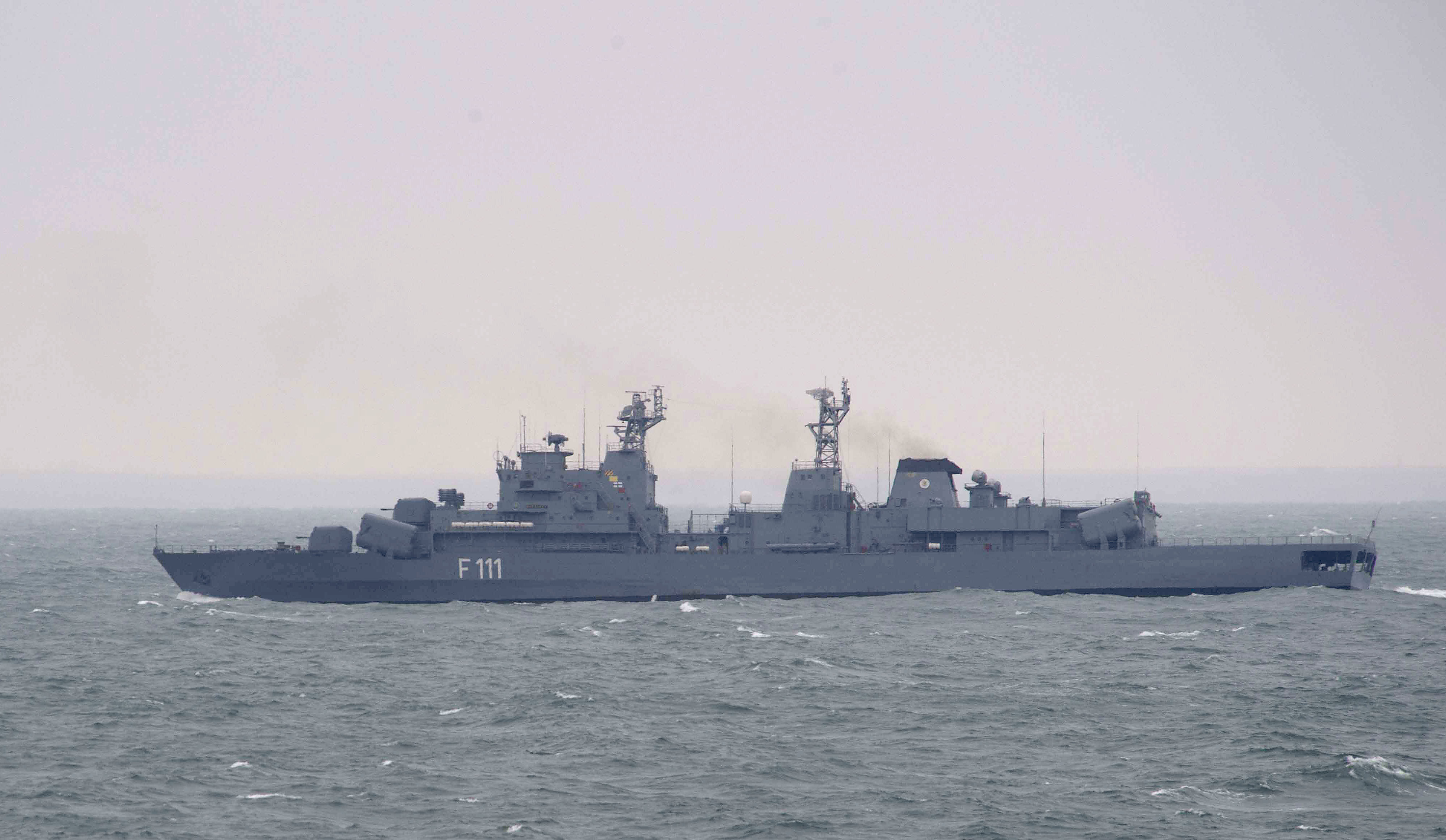 The Romanian Navy frigate Mărășești (F 111) operating in the Black Sea while conducting an underway engagement with the U.S. Navy guided-missile destroyer USS Cole (DDG-67).